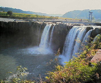 photo of Harajiri waterfall(Harajiri-no-taki) in Bungo-ono, Oita, Japan